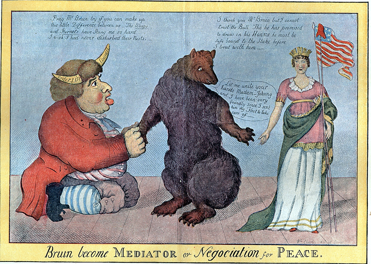 Bruin become MEDIATOR or Negotiation for PEACE, New York. The picture refers to the War of 1812 between America and Great Britain and the Russian effort to mediate. It shows John Bull, the Russian Bear and Columbia.